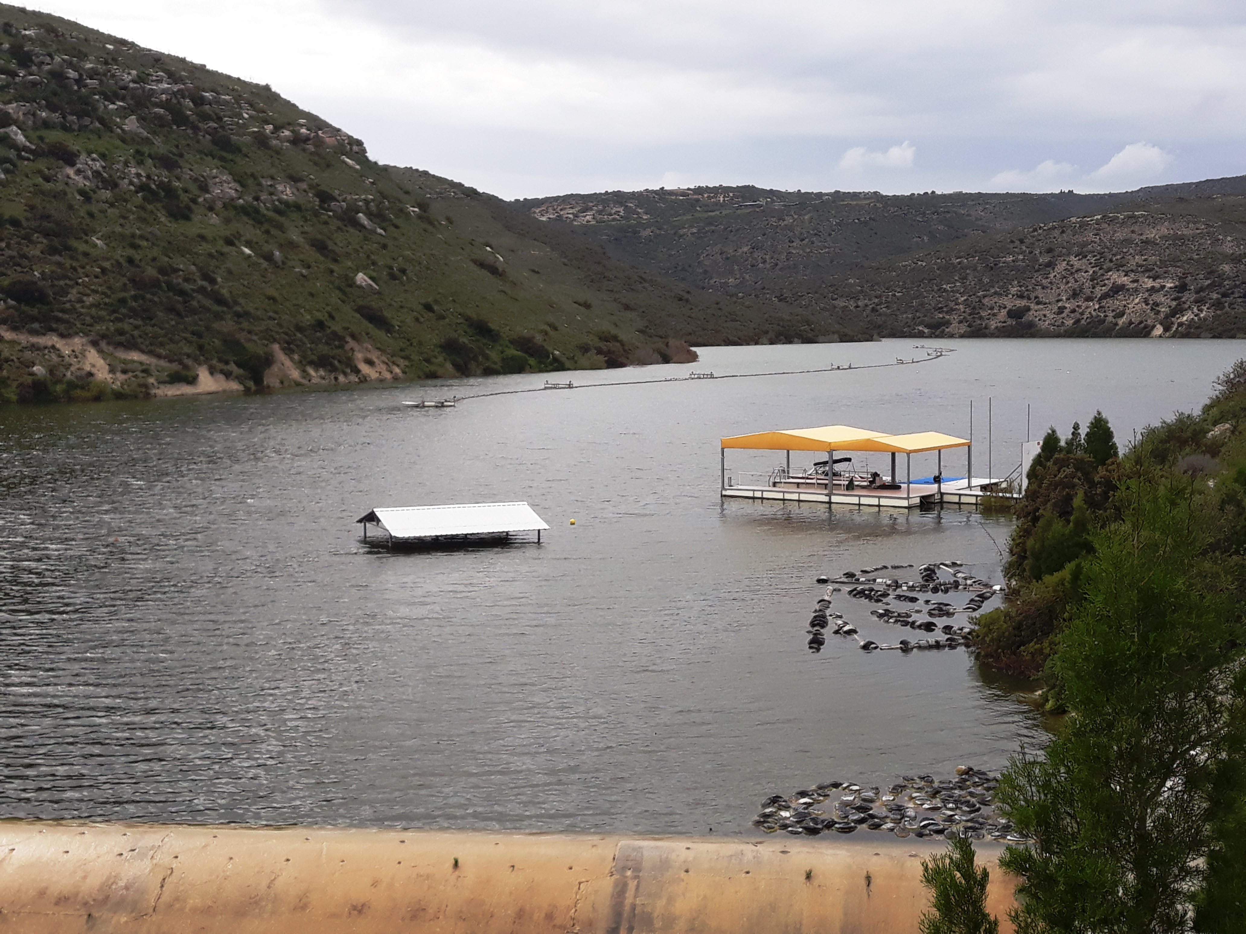 Polemidia Reservoir.